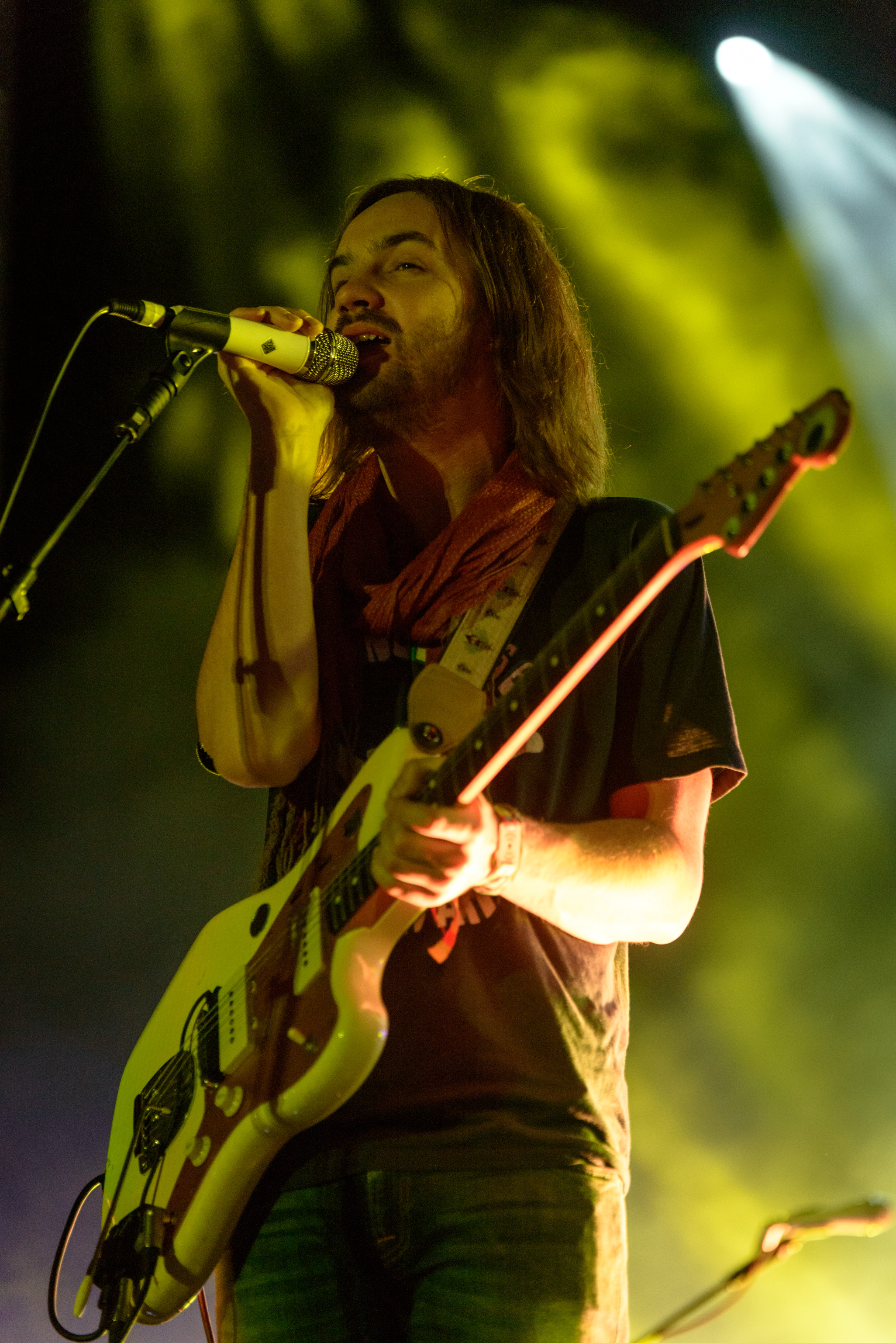 Tame Impala @ Lollapalooza 2015